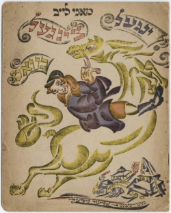 Cover from Yingl Tsingl Khvat. Yidisher Folksfarlag, Kiev/Petersburg 1918/19